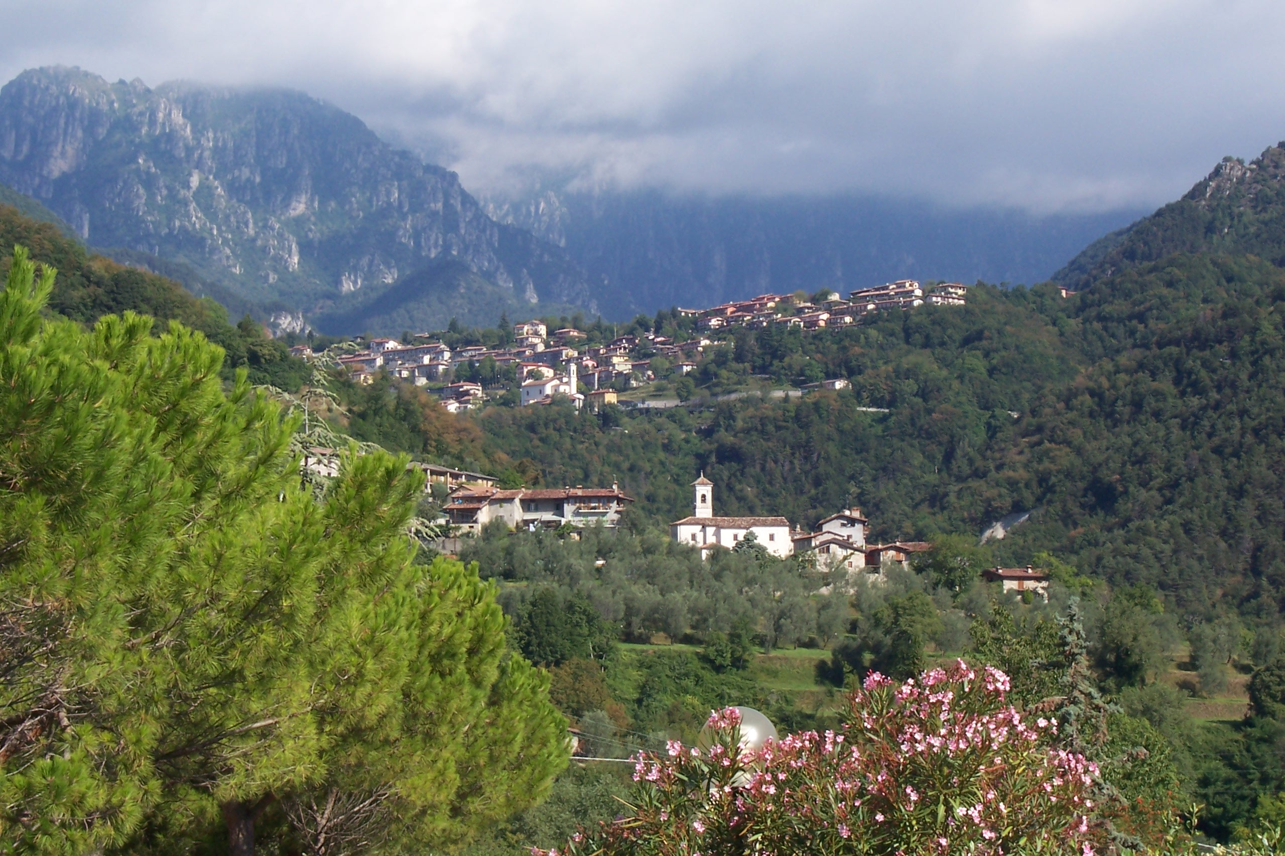 Tremosine, Italy: the villages Priezzo, Villa and Vesio